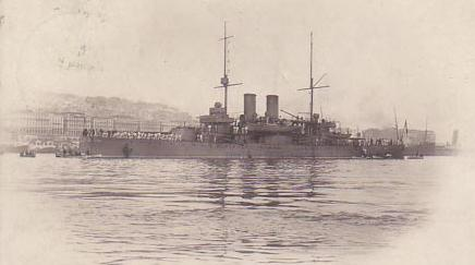 Postcard of the Swedish battleship HMS Dristigheten in Algiers, 1906.